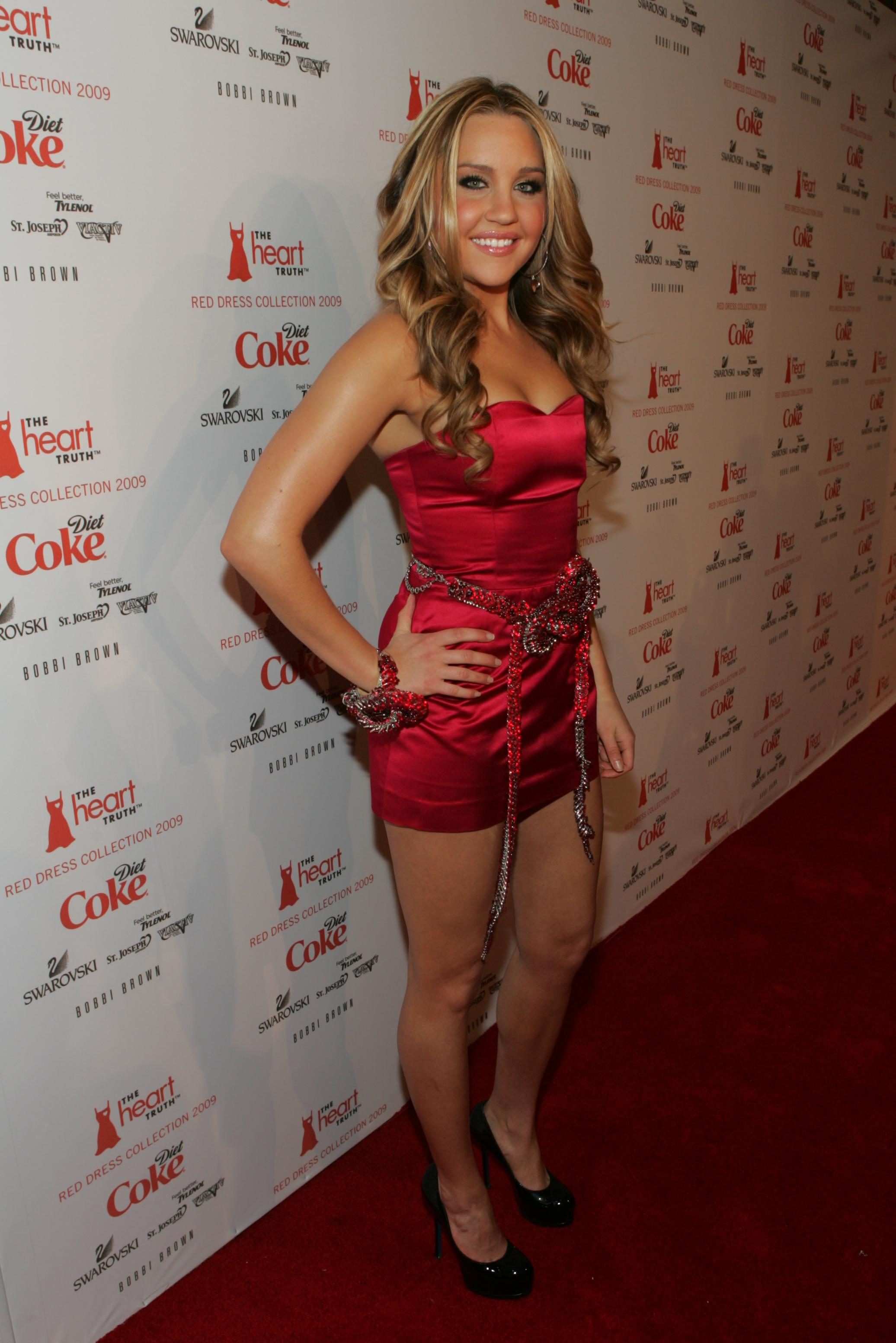 Backstage at The Heart Truth's Red Dress Collection Fashion Show during New York Fashion Week. February 13, 2009 at Bryant Park.